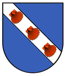 Coat of arms of de: Heddesdorf in Neuwied